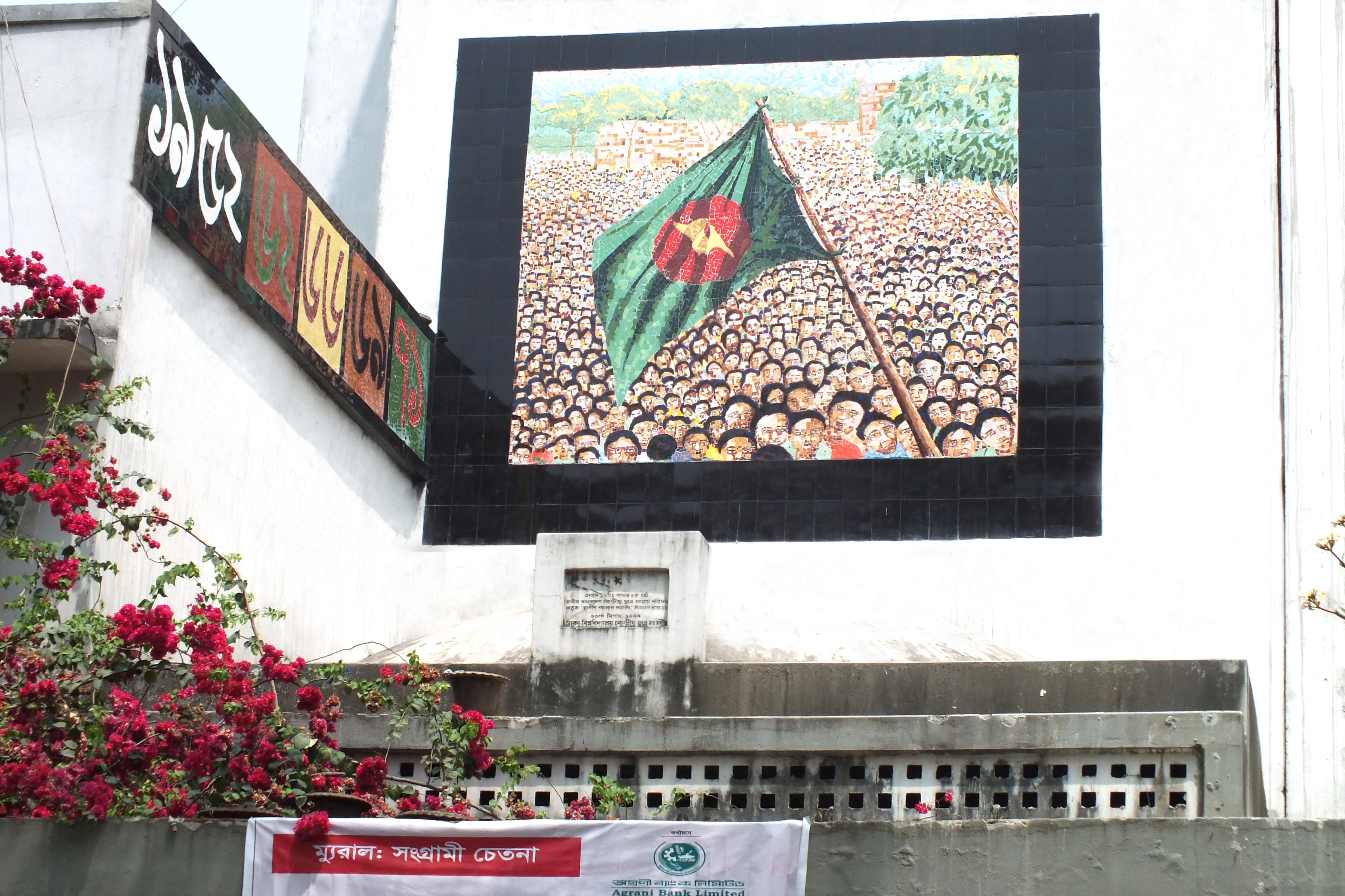 On 2nd March, 1971 the flag of Bangladesh was raised for first time in this place. This rooftop is the part of Arts building, university of Dhaka. DUCSU has placed a memorial plate to commemorate that event. On March, 2012 a mural titled Shangrami Chetona has been placed there to commemorate that glorious day.